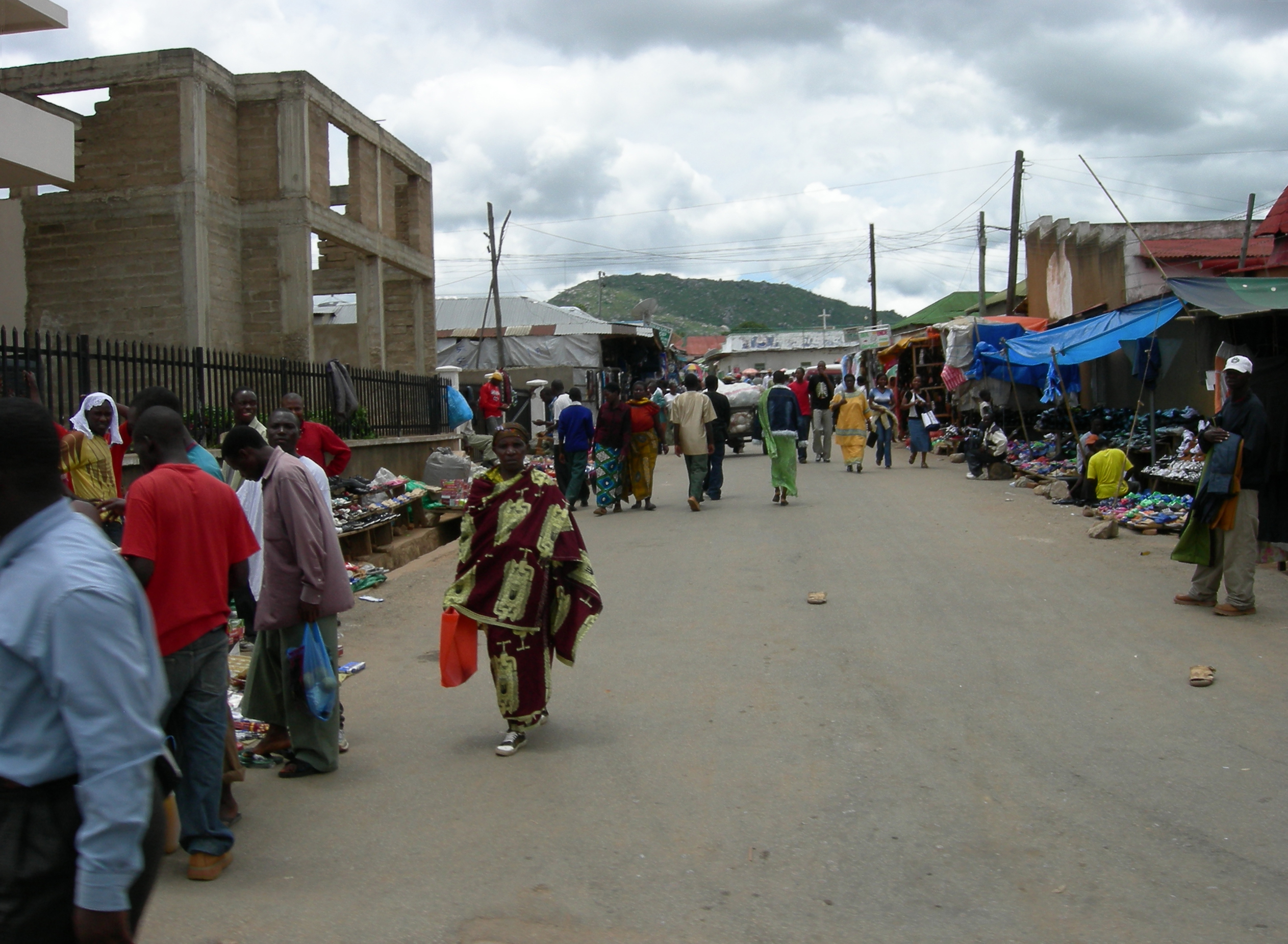 street view Iringa, Tanzania